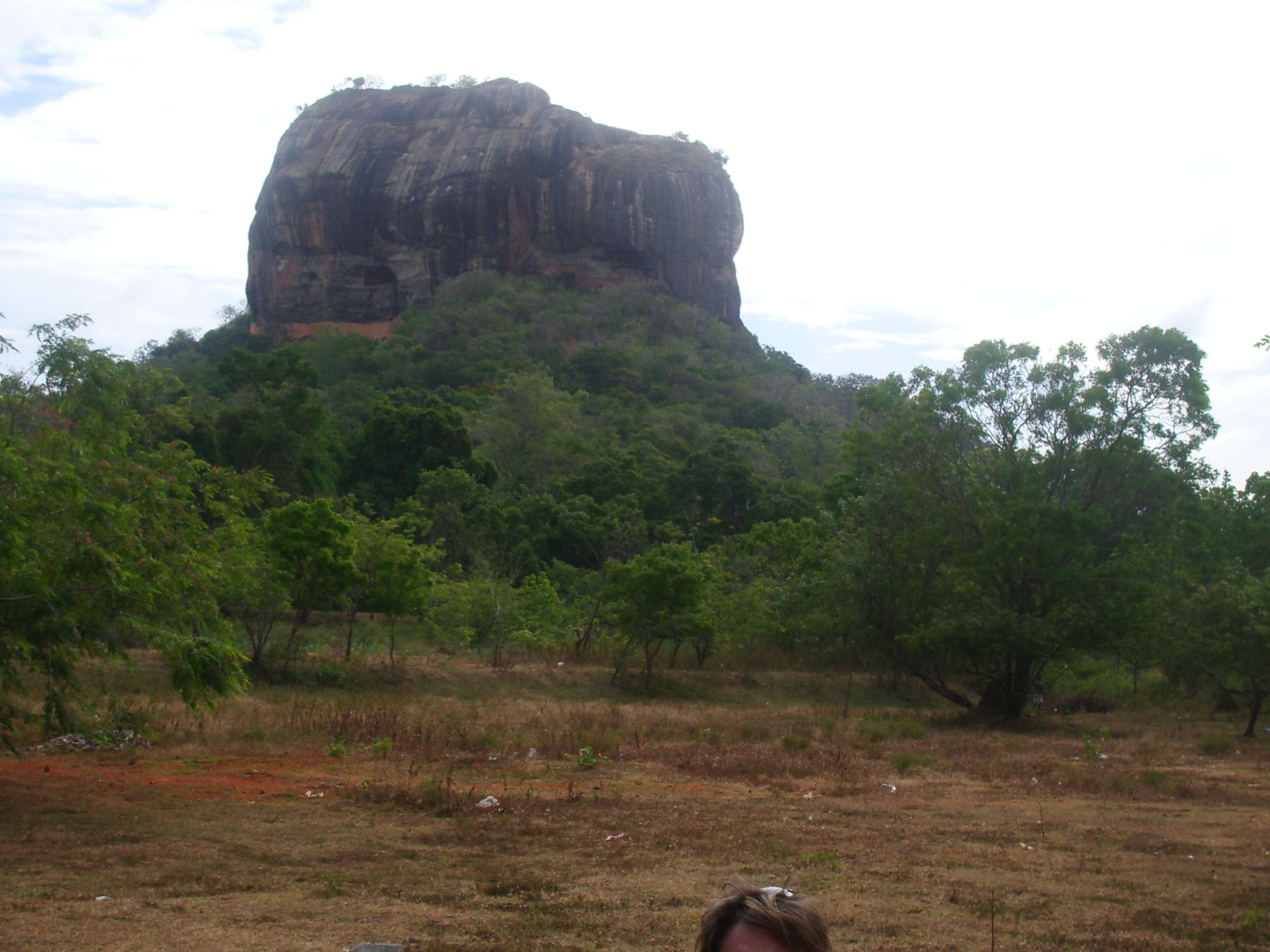 Sigiriya Rock. Climbing it there's the rest of the fortress